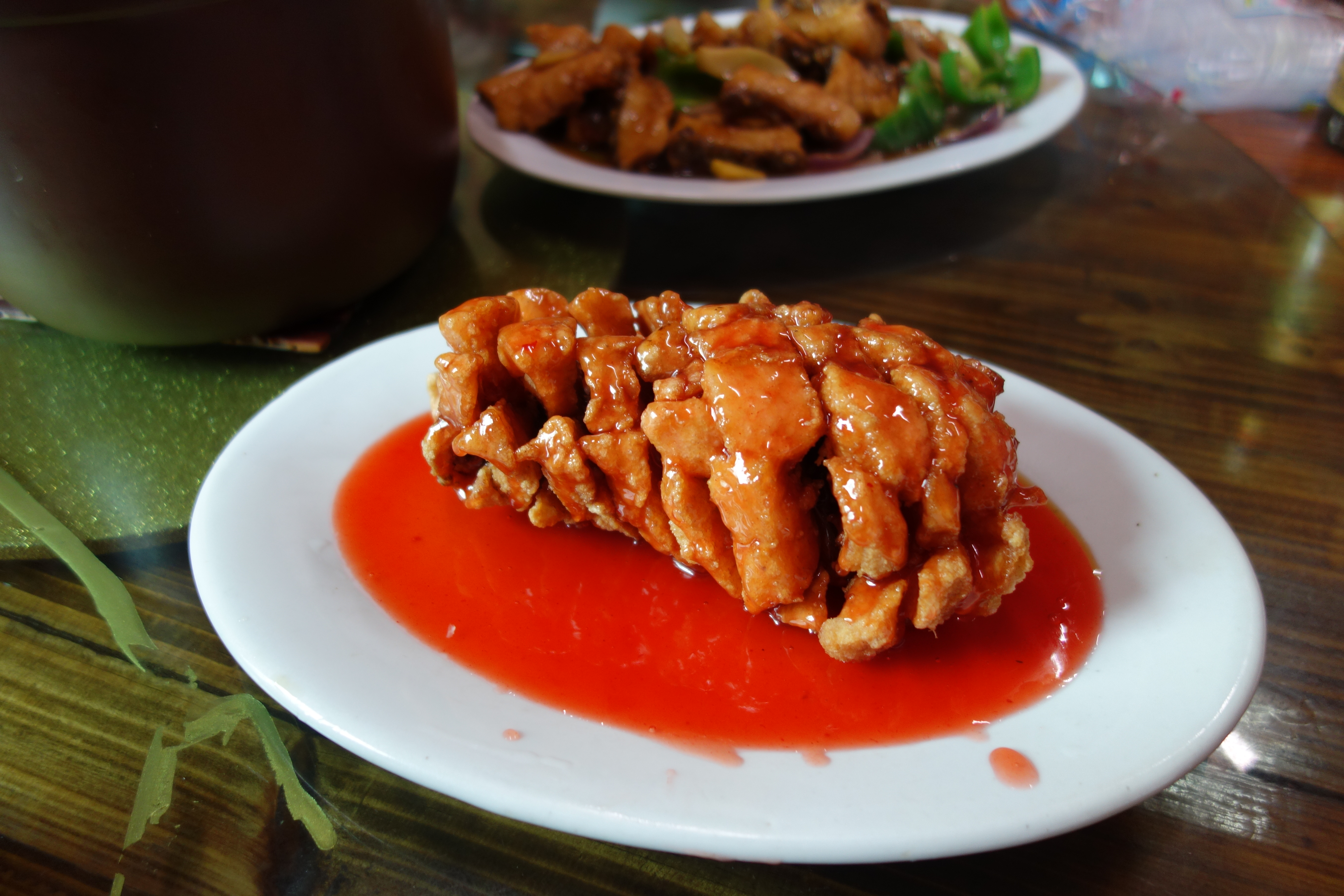 Deep fried fish in a sweet & sour sauce. Confirmed sweet & sour sauce is legit